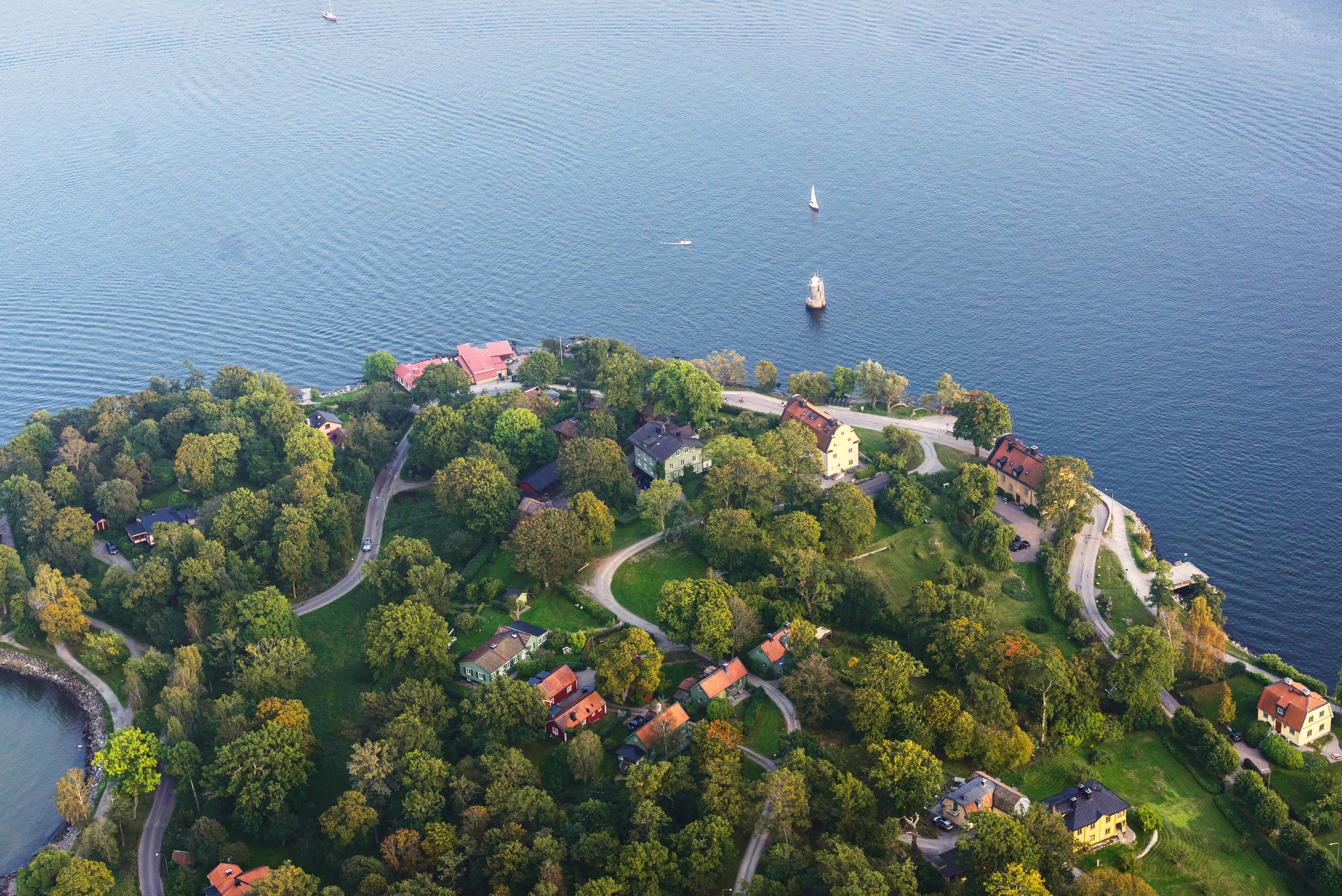 Blockhusudden (Plommonbacken), Djurgården (Stockholm).